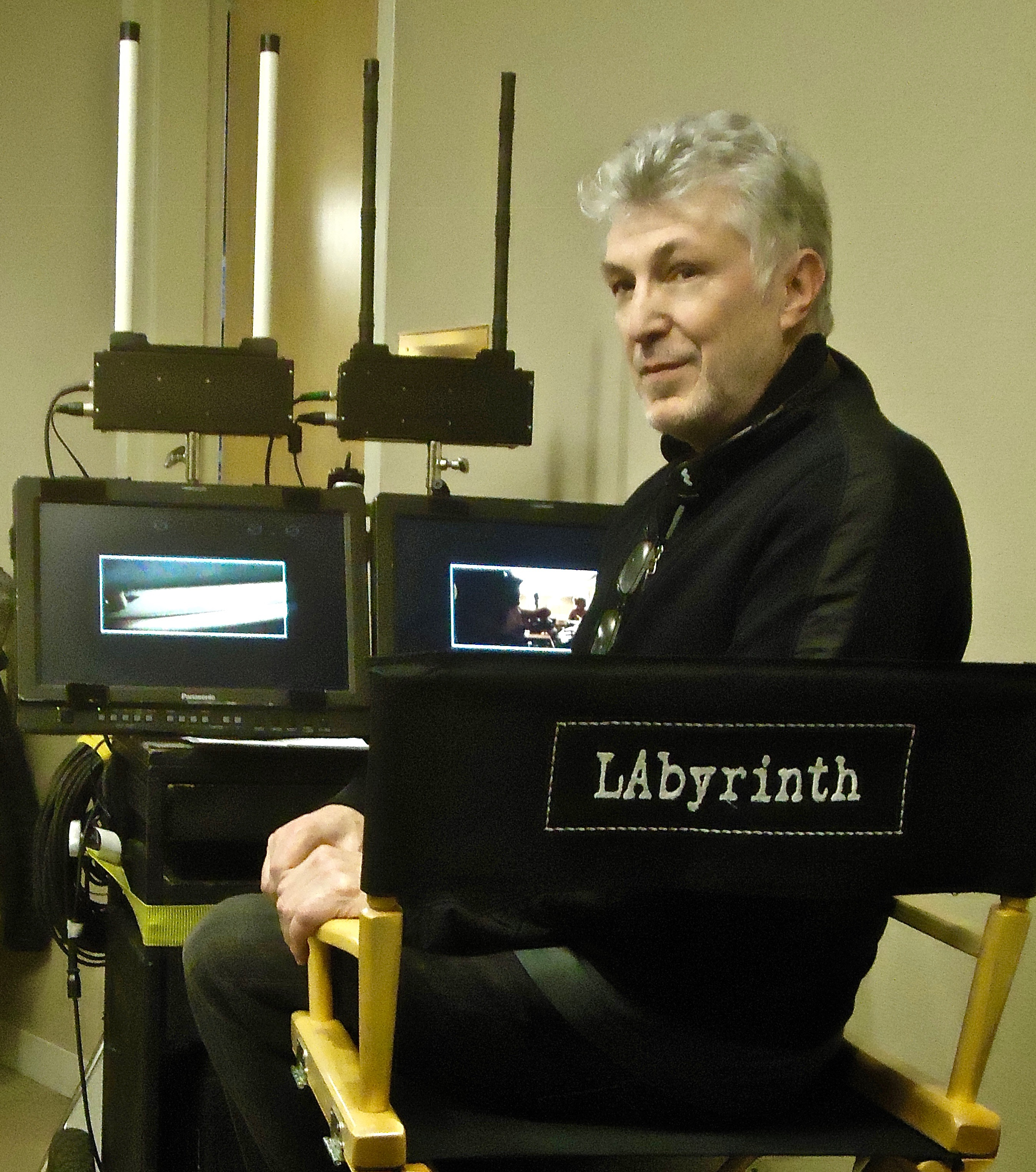 image of Randall Sullivan on the set of LAbyrinth; photo taken by Jeanne field.